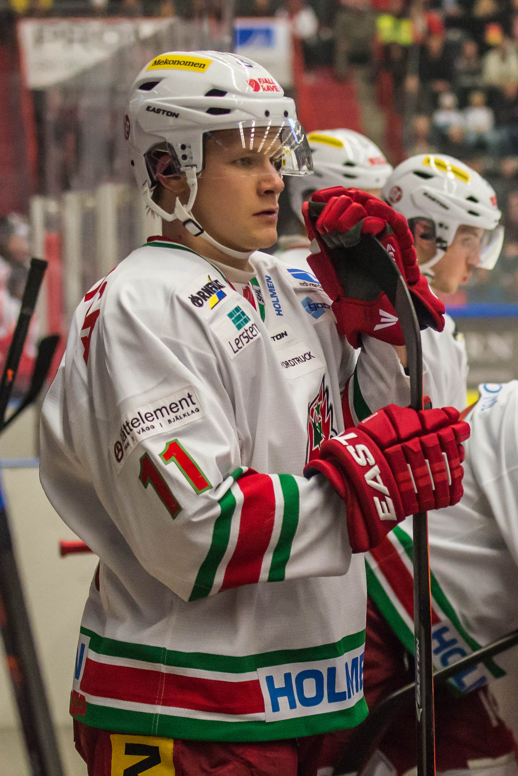 Simon Önerud playing for MODO Hockey in SHL (Swedish Hockey League – Sweden's highest league) vs Örebro HK in Behrn Arena 2013-10-05.